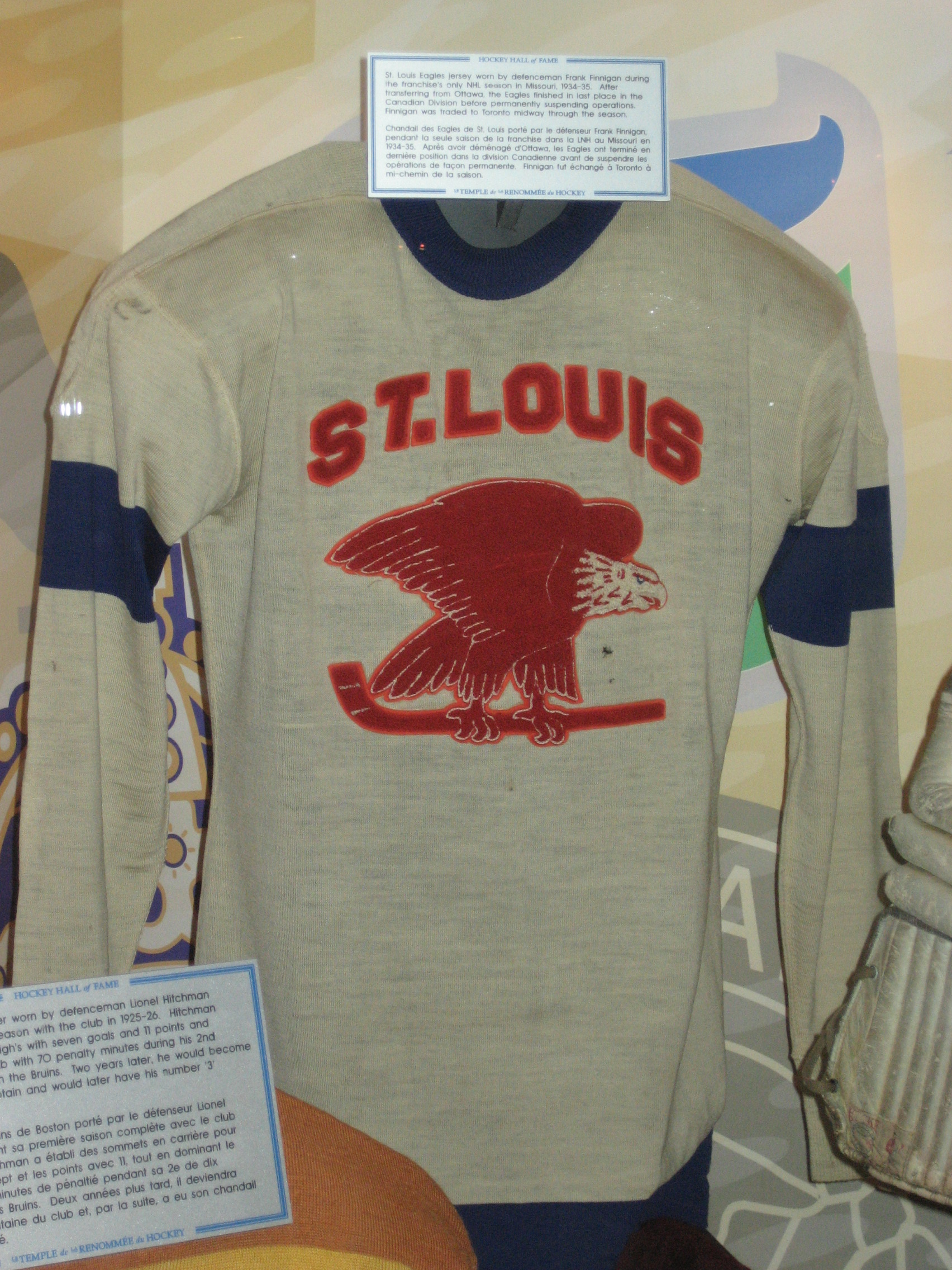 St.Louis Eagles NHL jersey, Hockey Hall-of-Fame, Toronto, Ontario, Canada.